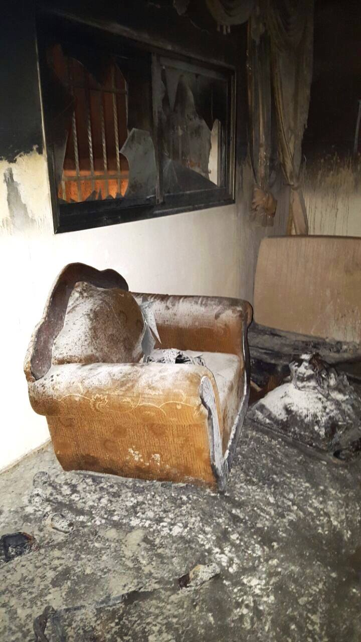 Burnt Dawabsheh home in Duma